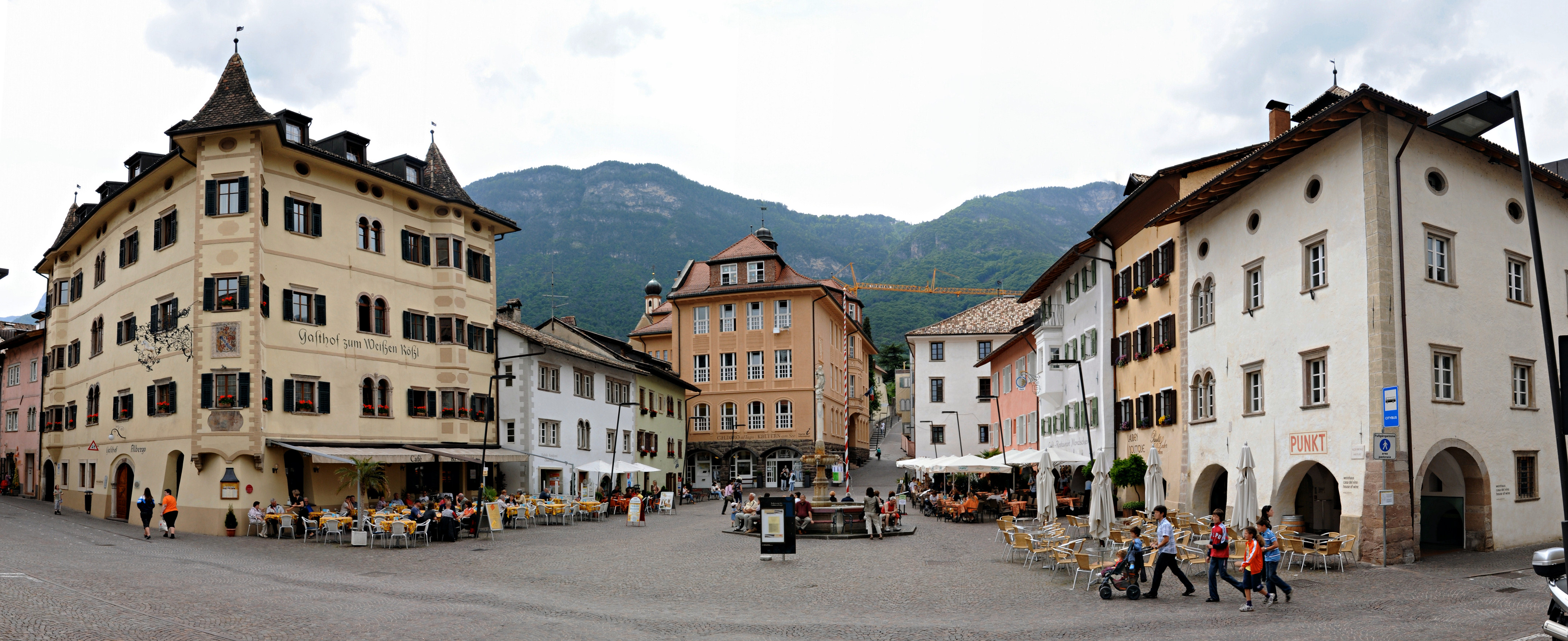 Kaltern, South Tyrol, market place - 4 photos stitched